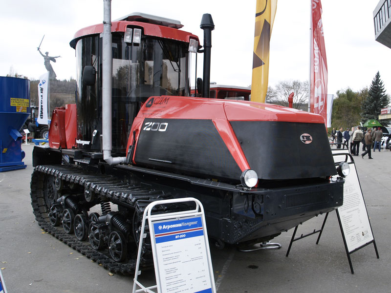 Tracked tractor "200" of the SDM Gruppa Kompanij.